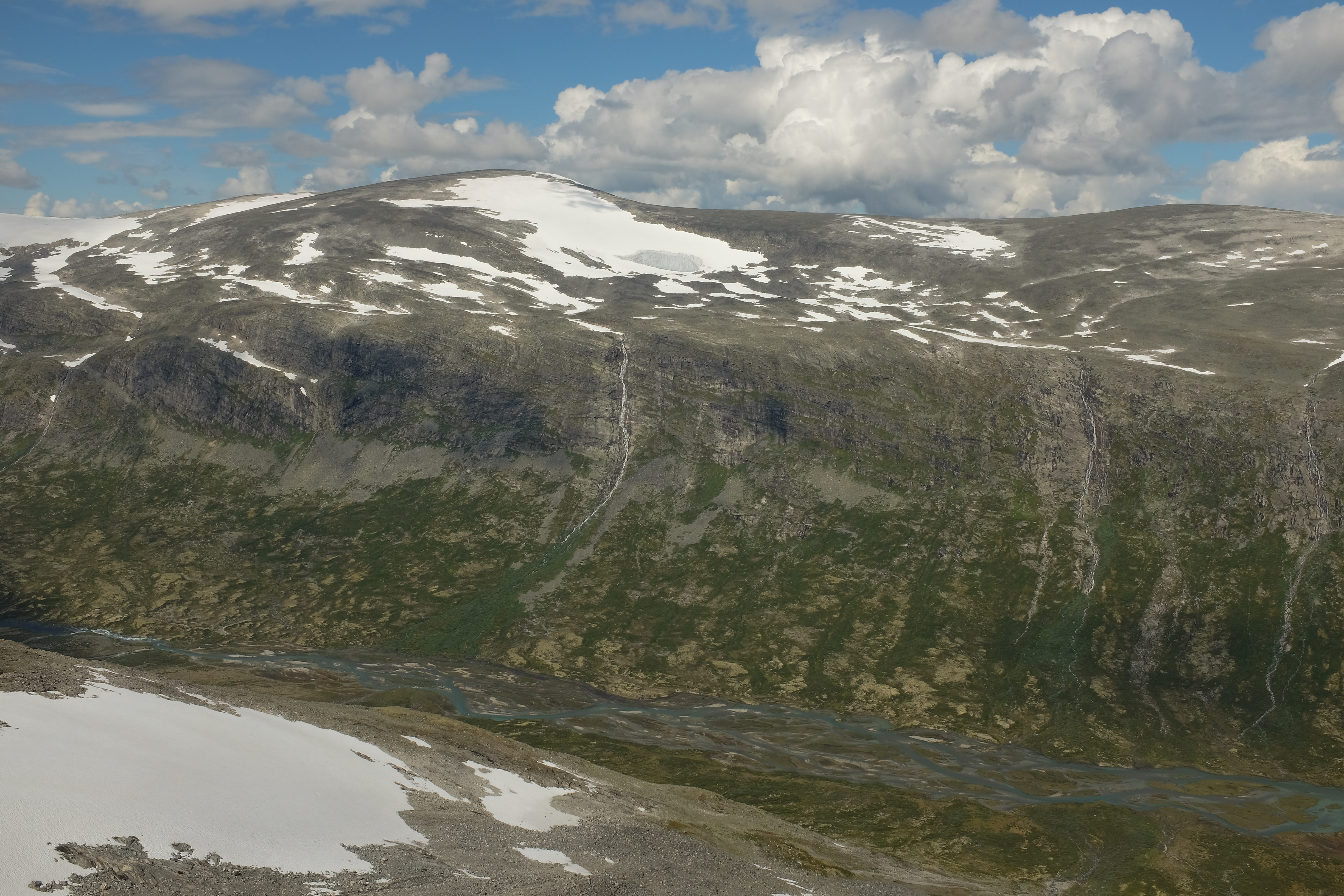 Hestdalshøgdi mountain seen from south. Hestdalshøgdi is a mountain between Tundradalen and Lundadalen south in Skjåk municipality in Oppland, in Breheimen National Park. The highest peak is Store (Great) Hestdalshøgdi with an altitude of 2,091 meters above sea level.